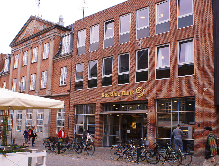 Roskilde Bank, Roskilde, Denmark. - Roskilde Bank has been taken over by The Danish National Bank and a Bank Trust from 25th August 2008. Roskilde Bank was the 10th largest bank in Denmark, but had too many and too big and too risky credit agreement to some very big customers. The loss until now is aound ½ billion Euro but might be as big as 1 billion Euro, or even more. It it the first bank overtake by The Danish National Bank since 1928.